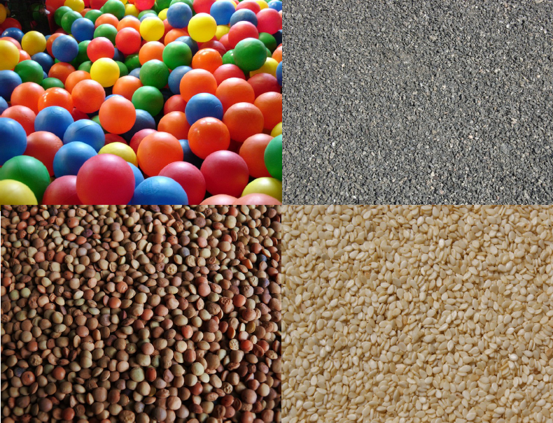 Examples of granular matter.